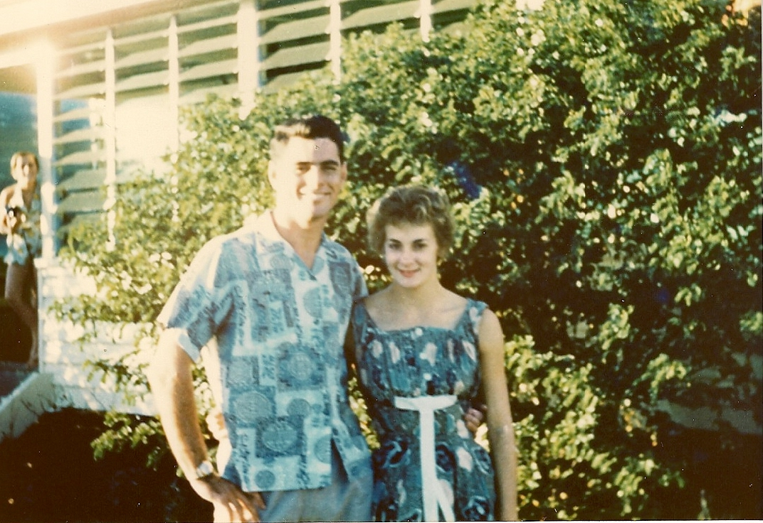 John Devitt and Kaye Nottle (1956 Australian Olympic Swimming Team Traning Camp, Townsville, QLD. Australia)